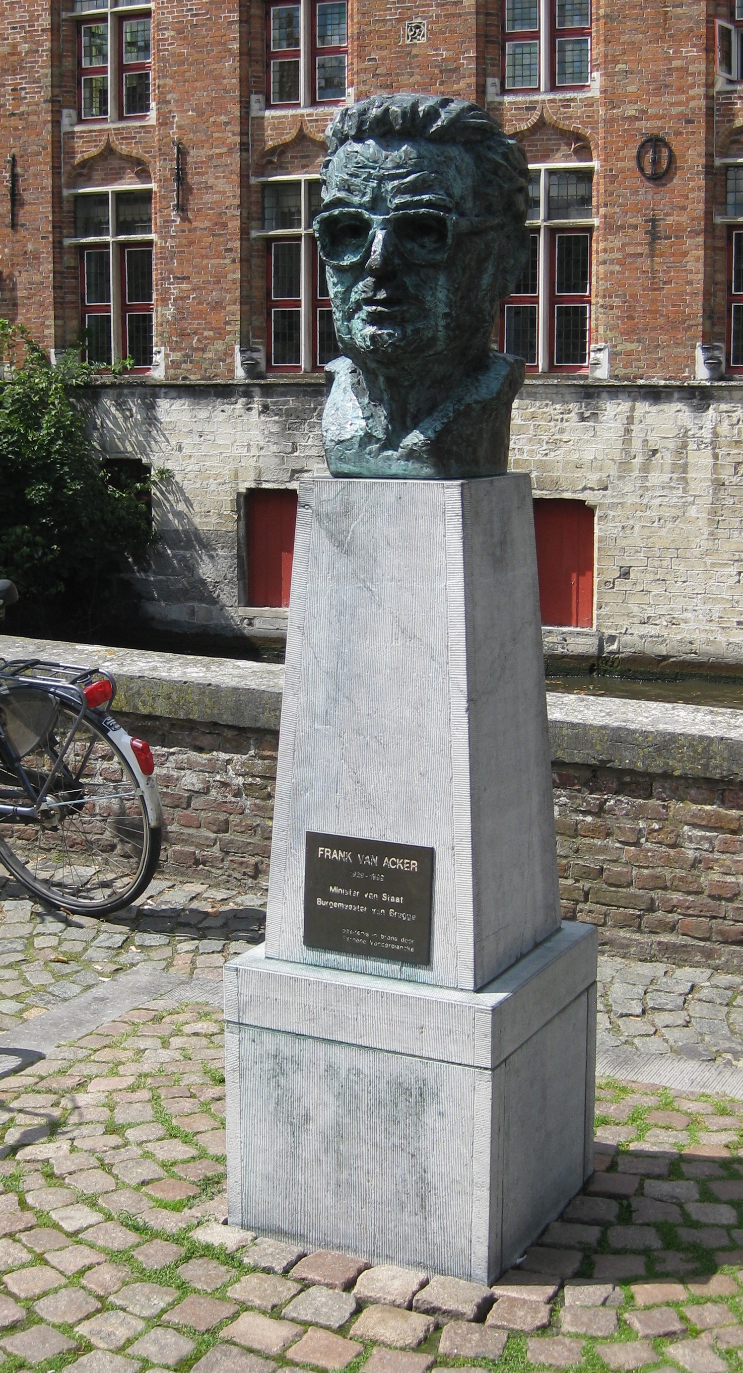 Belgium, West Flanders, Bruges: monument for Frank Van Acker